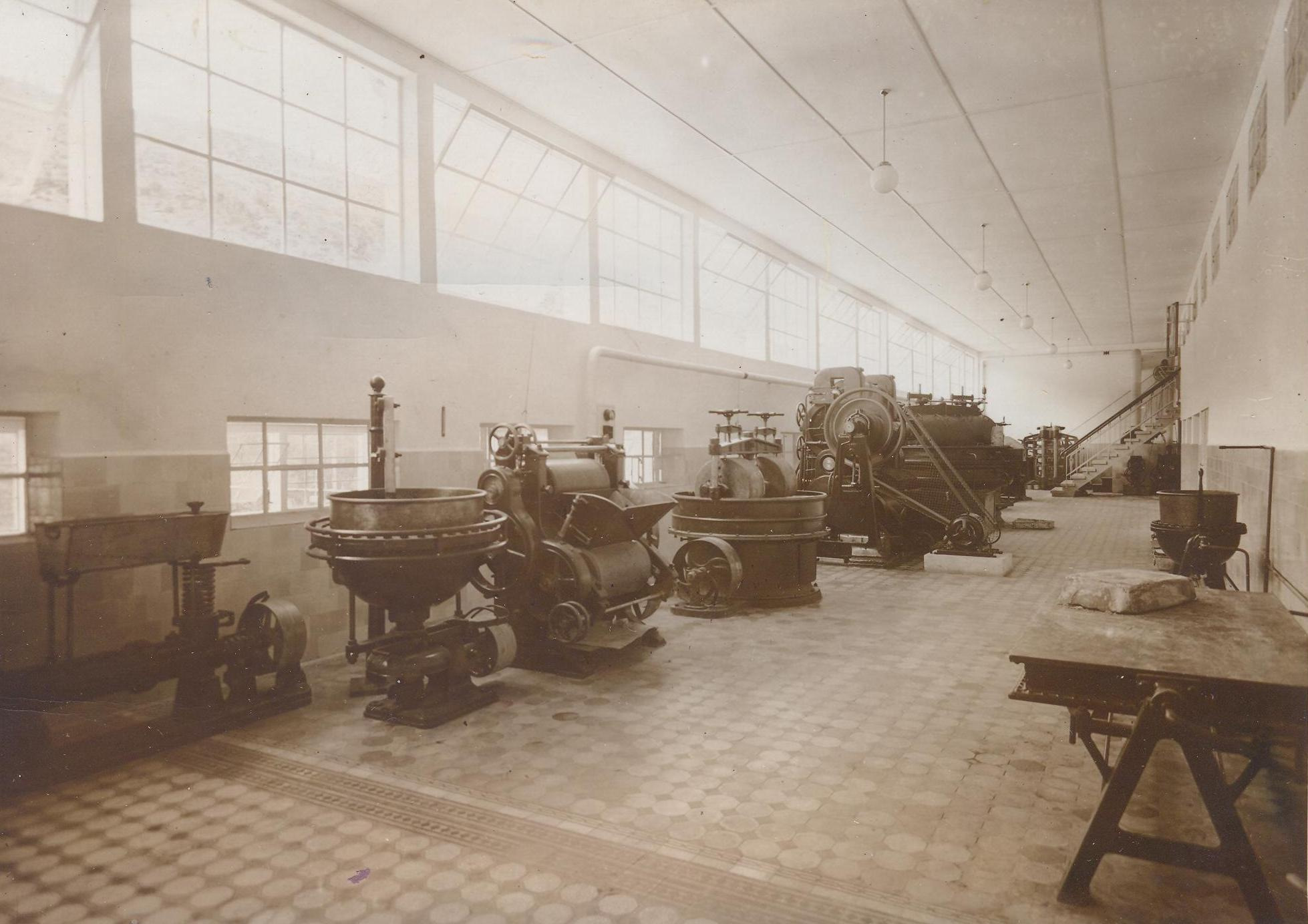 Velizar Peev's Chocolate factories, Bulgaria